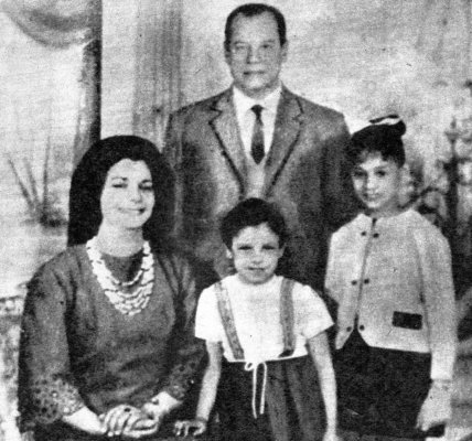 Nagib Mahfooz with his family